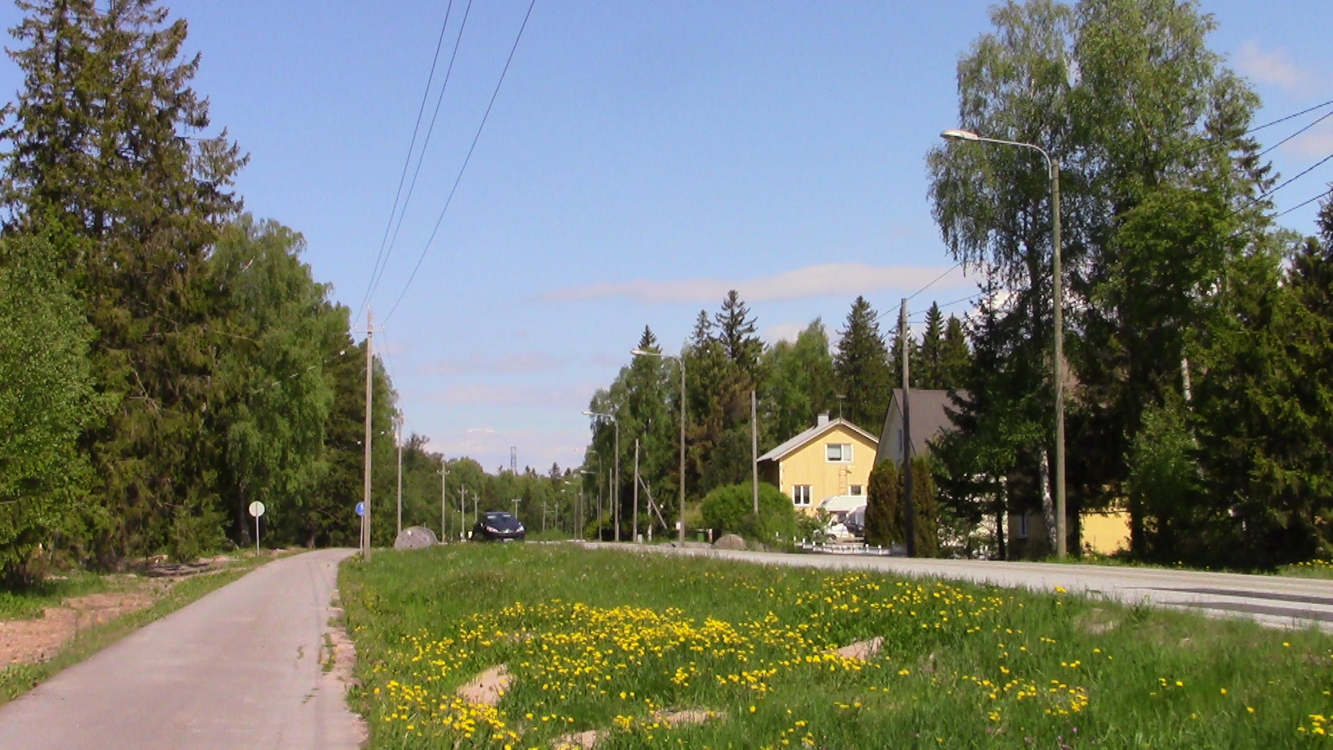 Regional road 269 at Parkkiluoto suburb in Pori, Finland. The picture's taken next to Heikintie road crossing.